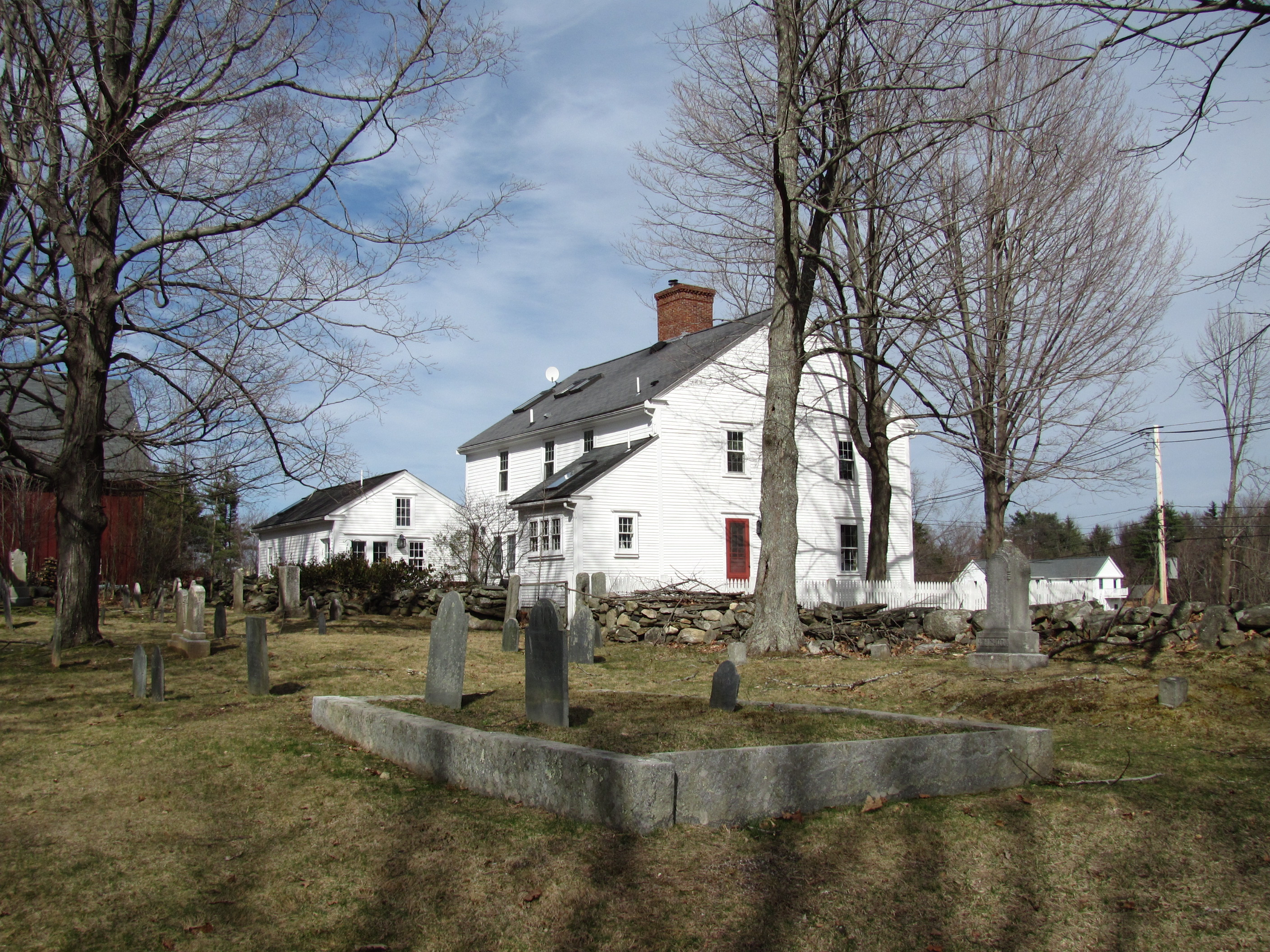 North Cemetery, Boxborough Massachusetts - in the background is the Rev. Joseph Willard House c.1796